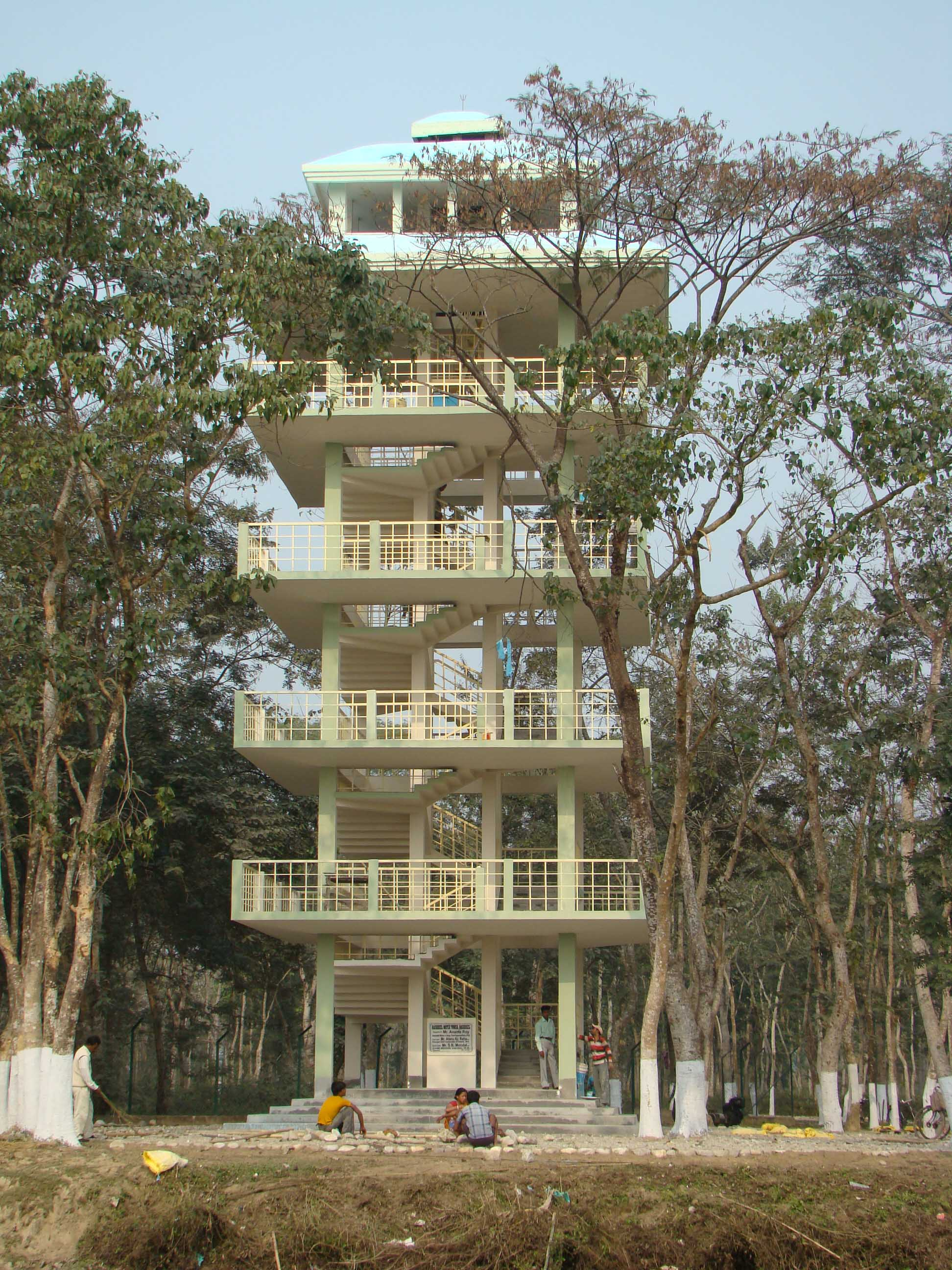 Watch Tower at Rasikbill